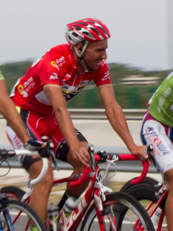 Juanjo Cobo dressed in red as the leader of the Vuelta a España 2011.